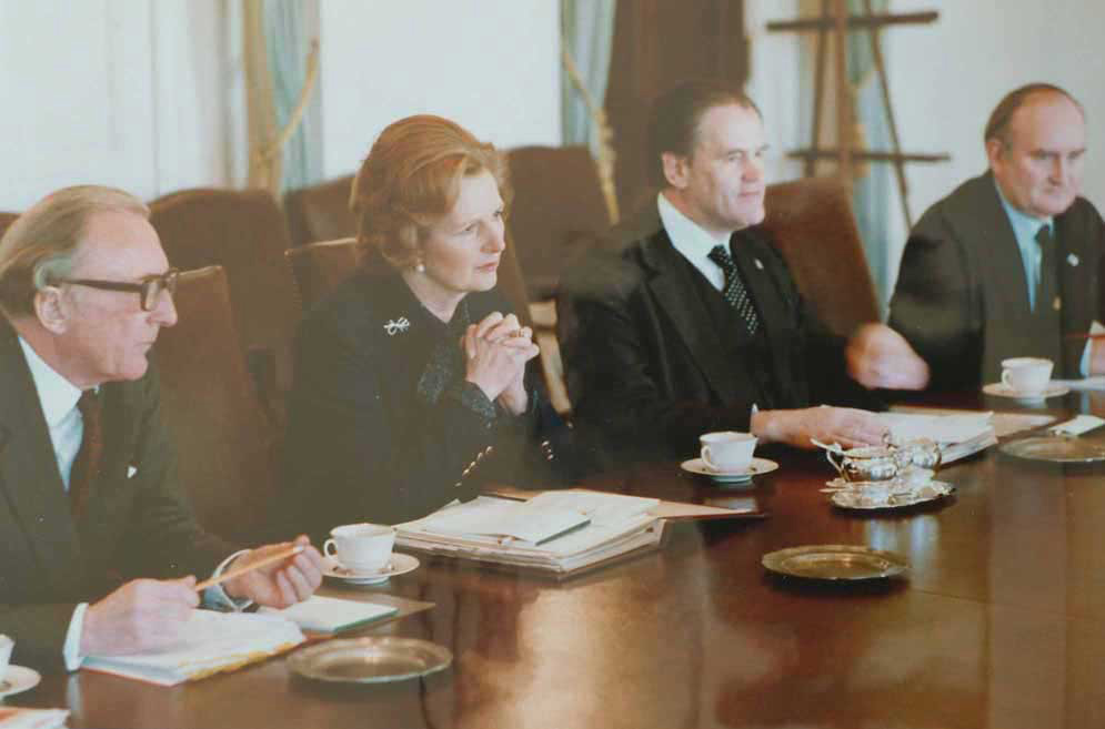 Margaret Thatcher in the White House Cabinet Room meeting with President Jimmy Carter.